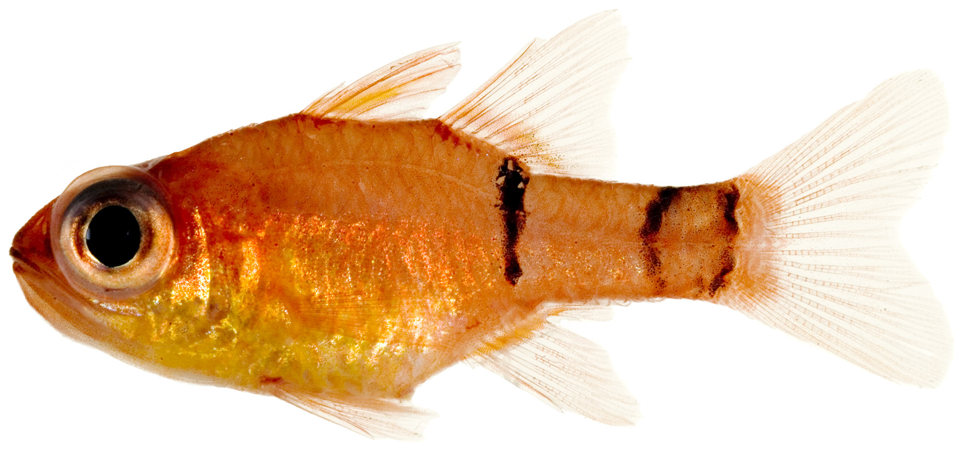 Apogon townsendi (Breder, 1927)—belted cardinalfish, 39.1 mm SL. Photo by JT Williams.